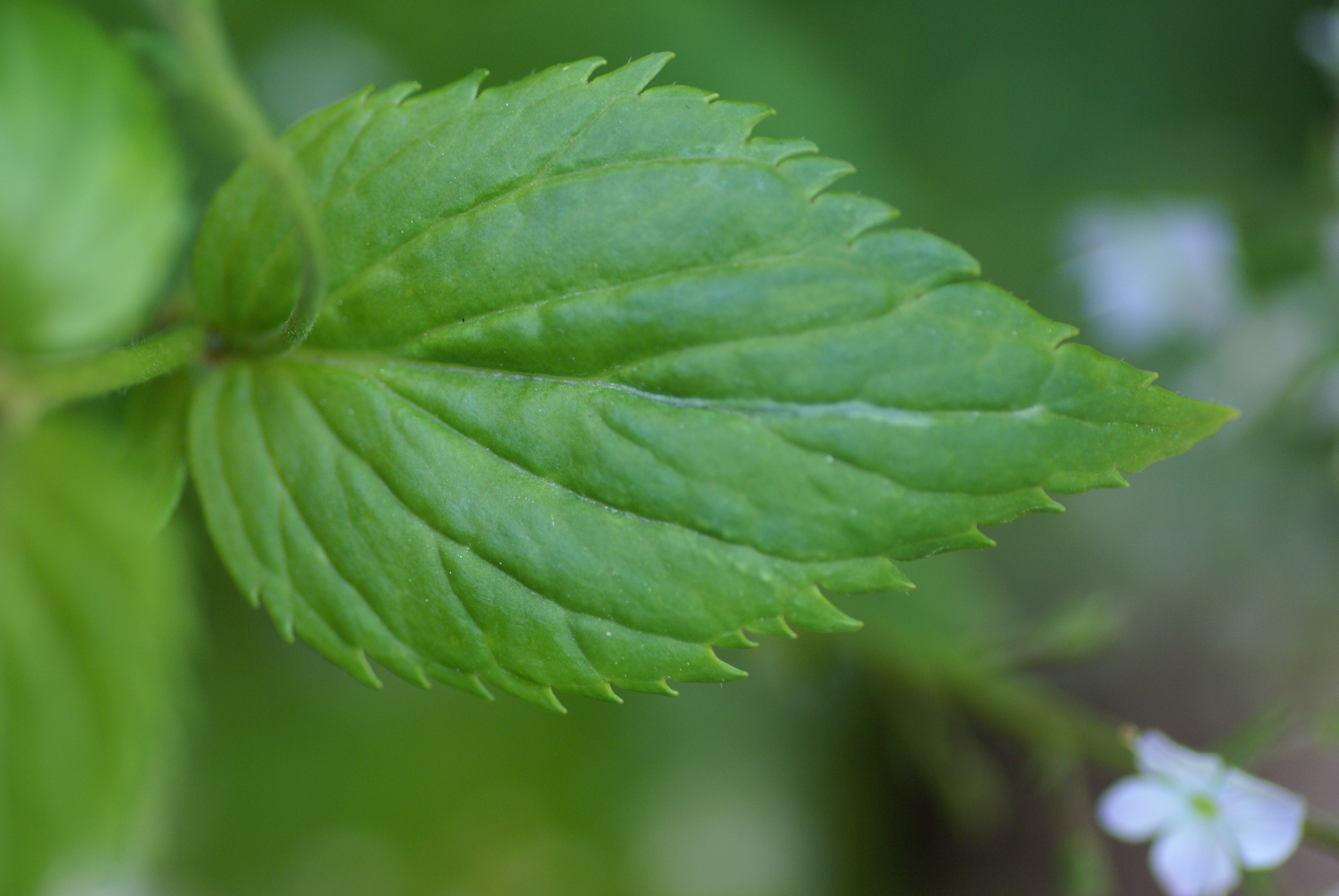 Plant species Veronica urticifolia in Botaniska trädgården in Uppsala, Sweden